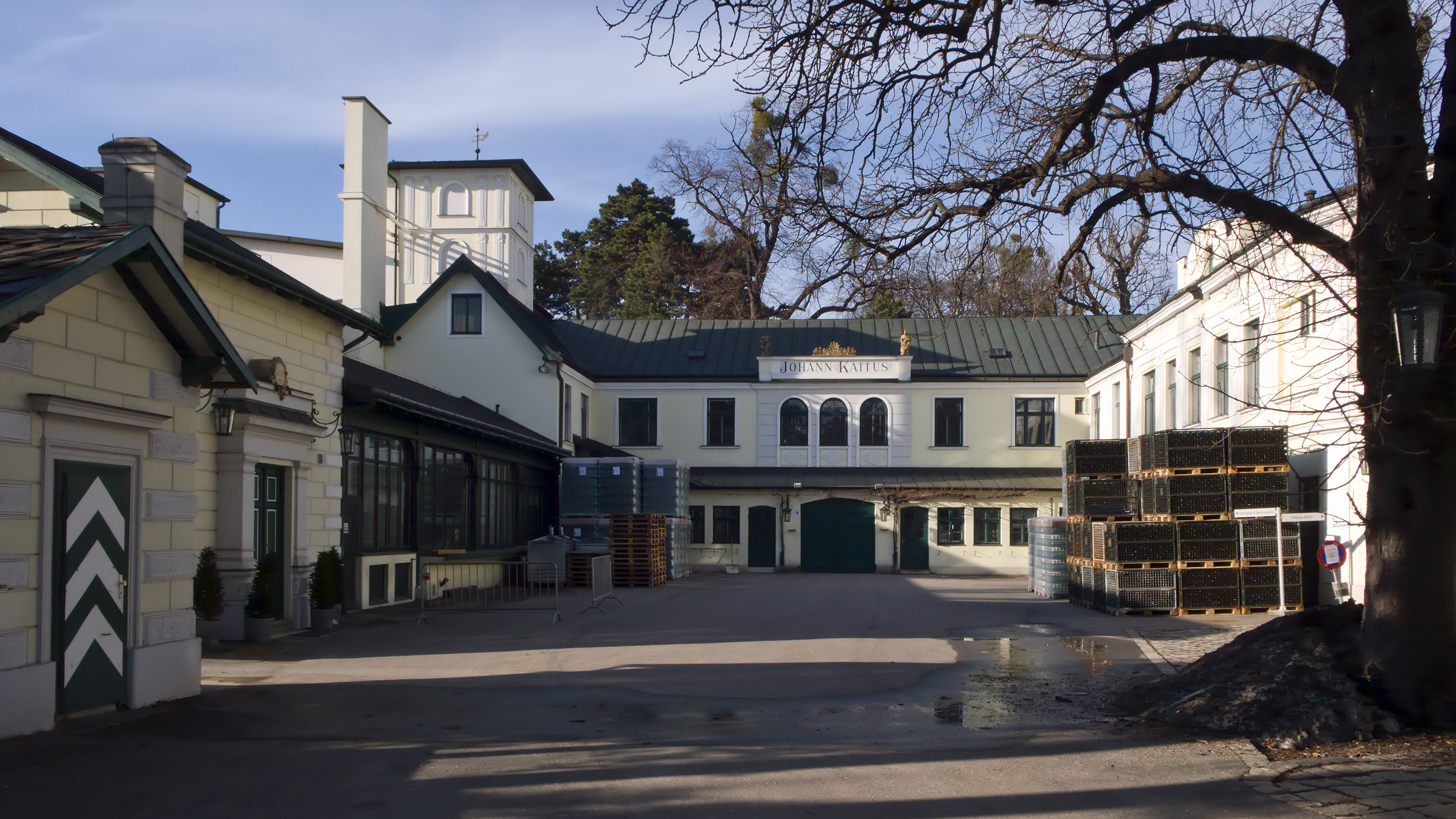 Sparling Wine Producer Kattus in Vienna Döbling